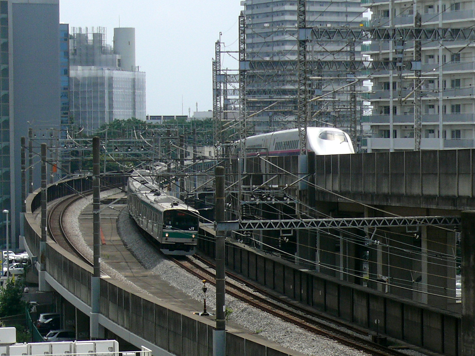 JR East Saikyo Line 205 series EMU and Tohoku Shinkansen E2 series between Omiya and Kita-Yono Stations